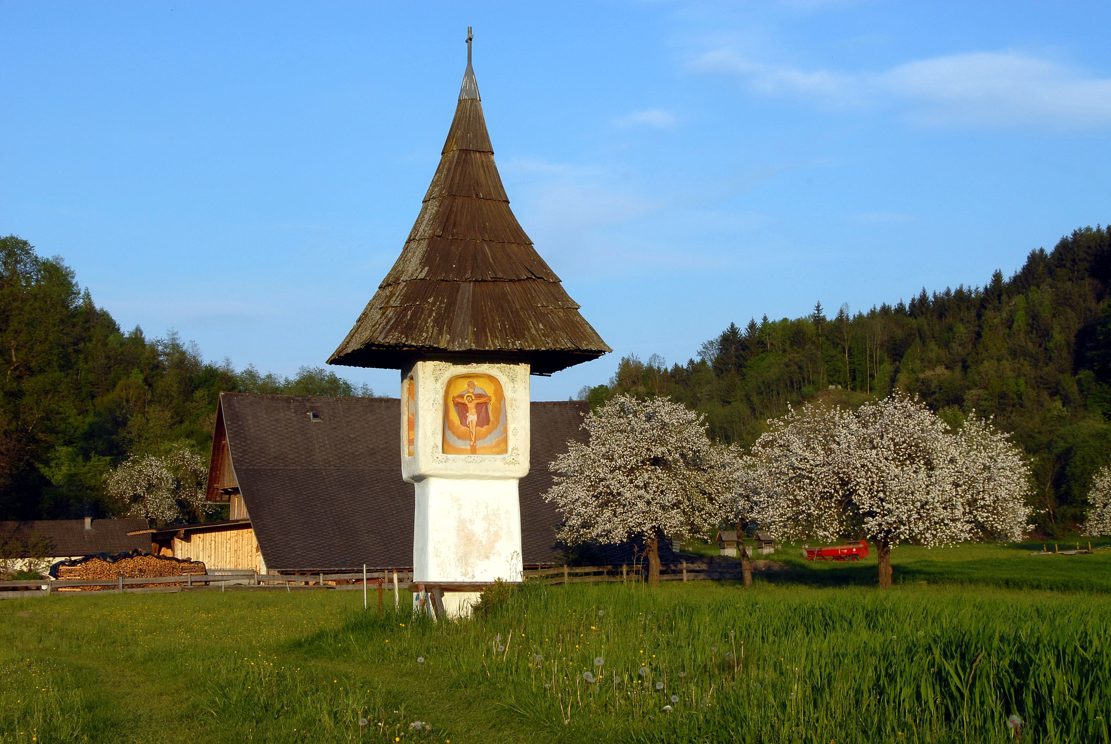 Pillar alcove wayside shrine of the 18th century (1757), Frojach, market town Rosegg, district of Villach Land, Carinthia, Austria